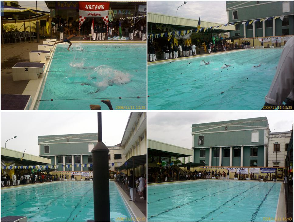 From my personal collection. Photographs of St. Peter's College Primary swimming meet on November 2008.